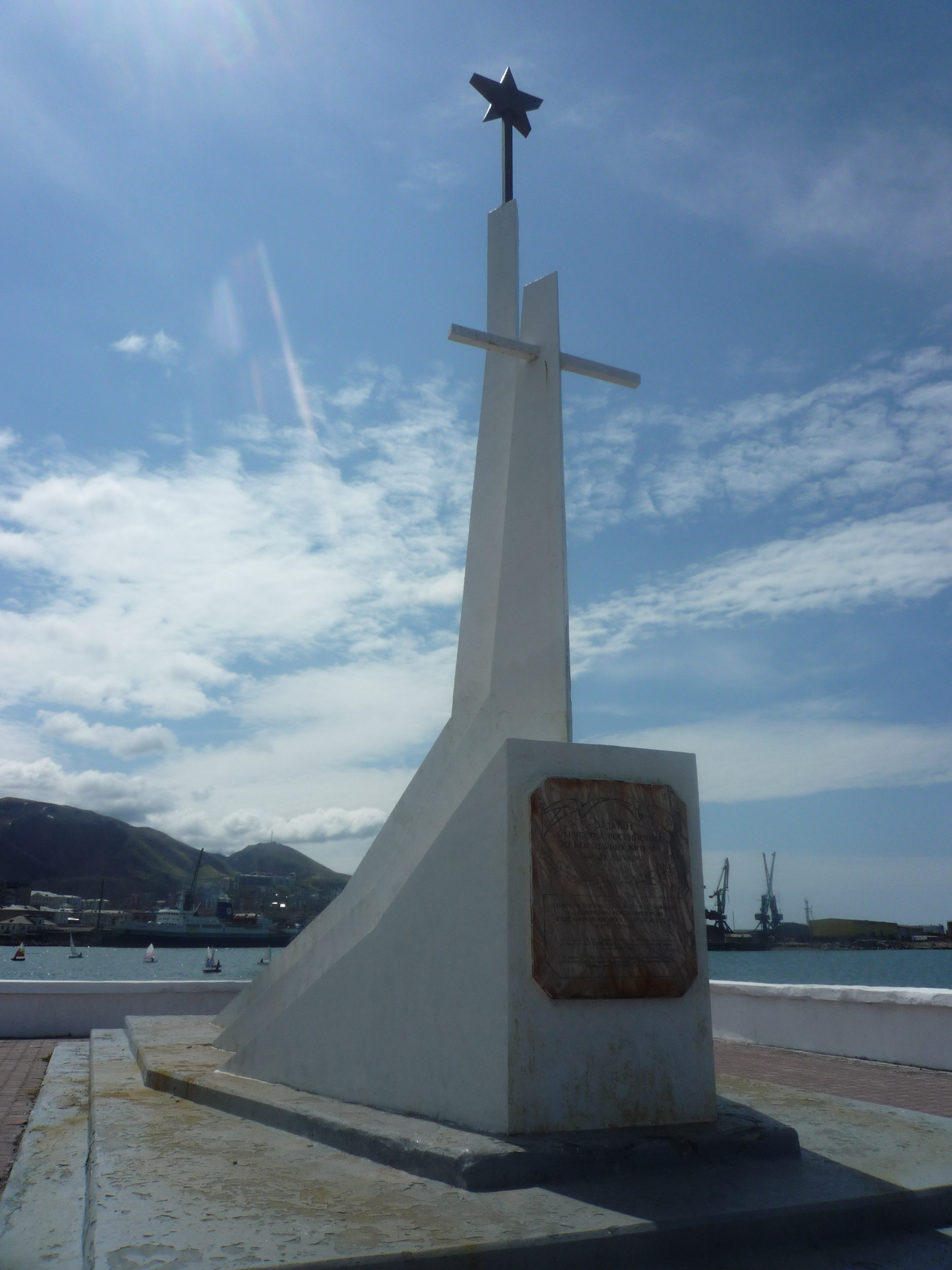 Памятник основателям и освободителям Холмска